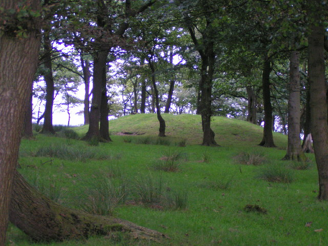 Brown Low, Ludworth Intakes. Brown Low is a bowl barrow and a Scheduled Ancient Monument - for more information.